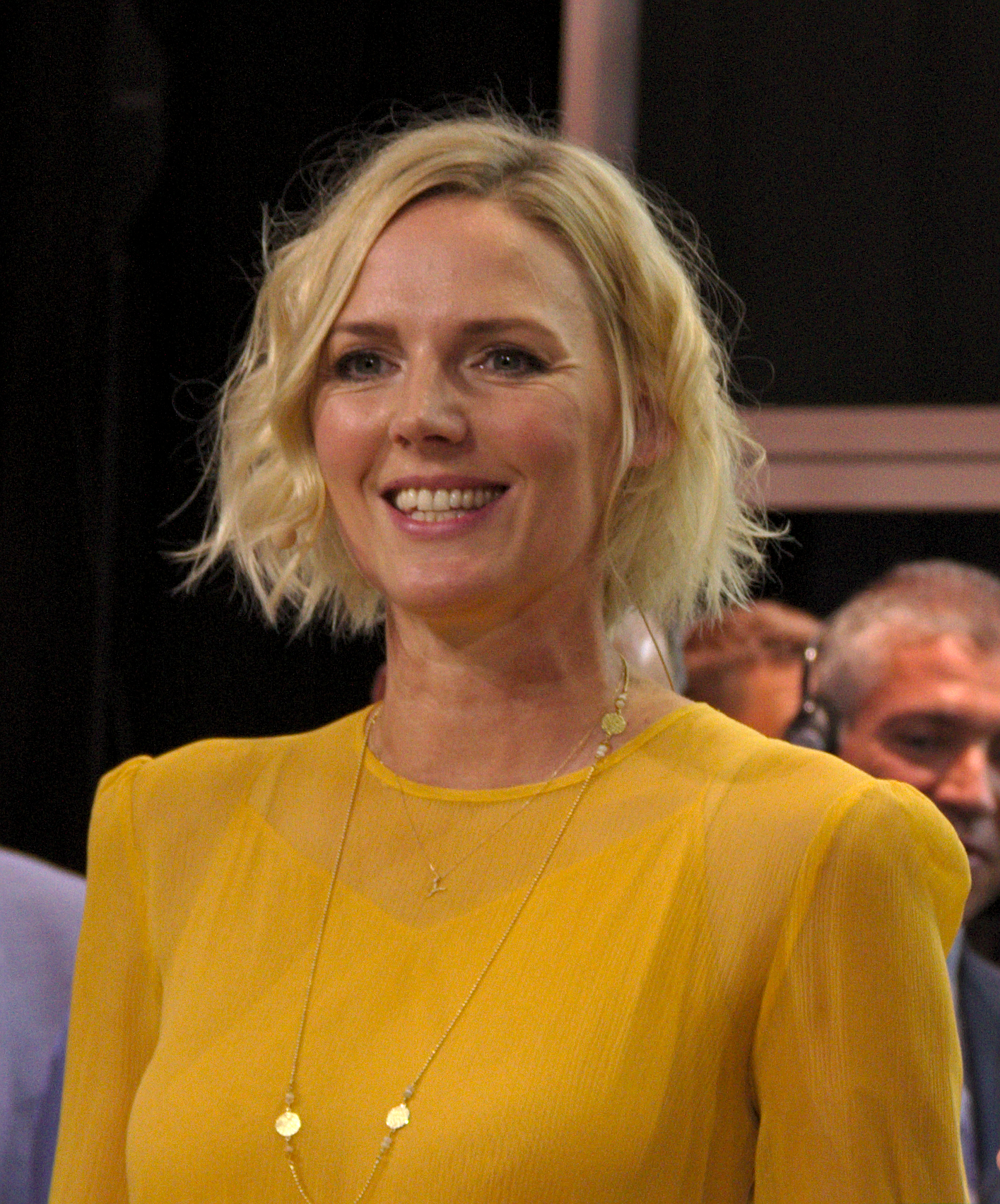 Yvonne Ransbach, Michael Lohscheller and Juergen Klopp at IAA 2019